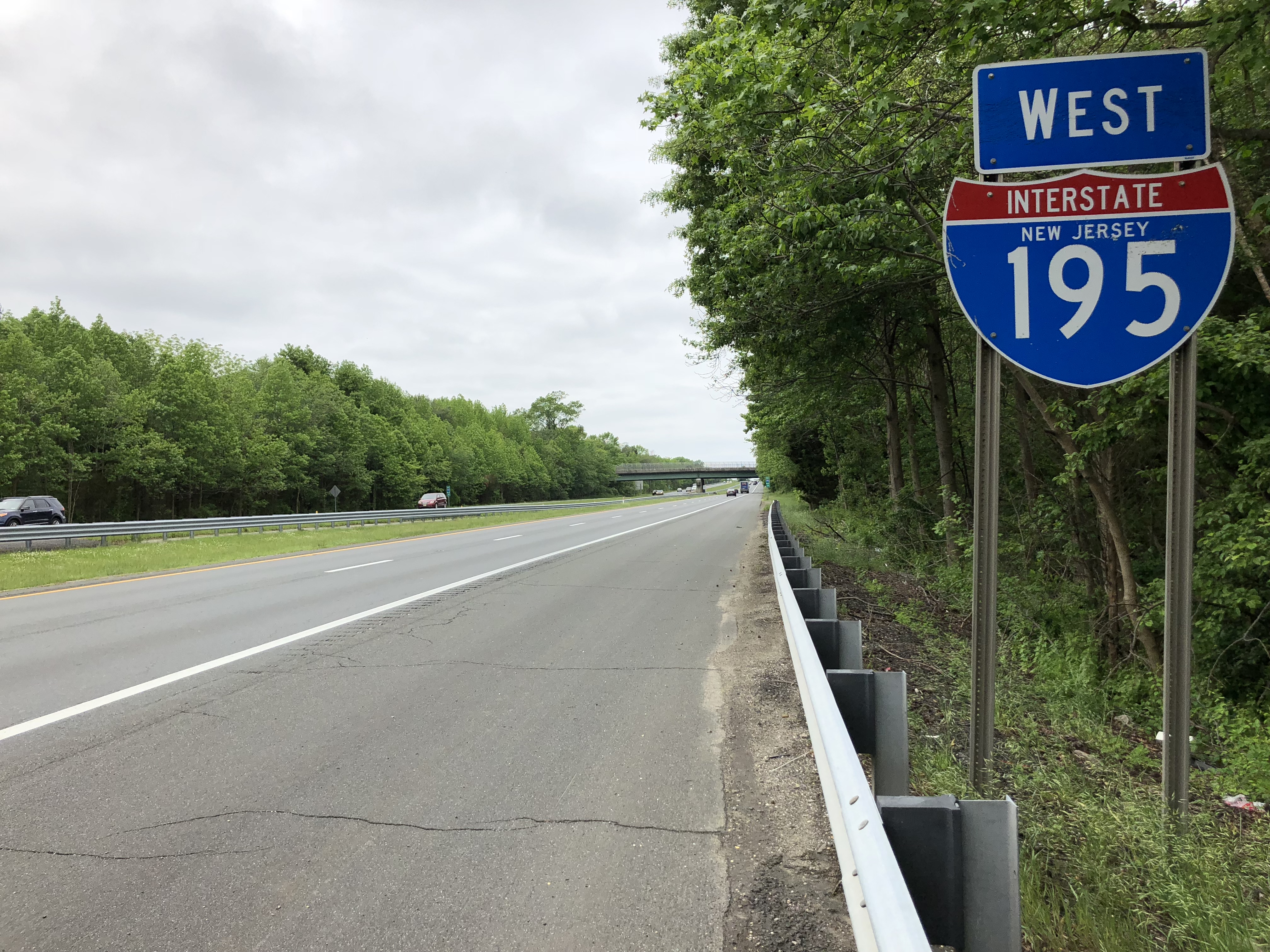 View west along Interstate 195 (Central Jersey Expressway) just west of Exit 31 in Howell Township, Monmouth County, New Jersey